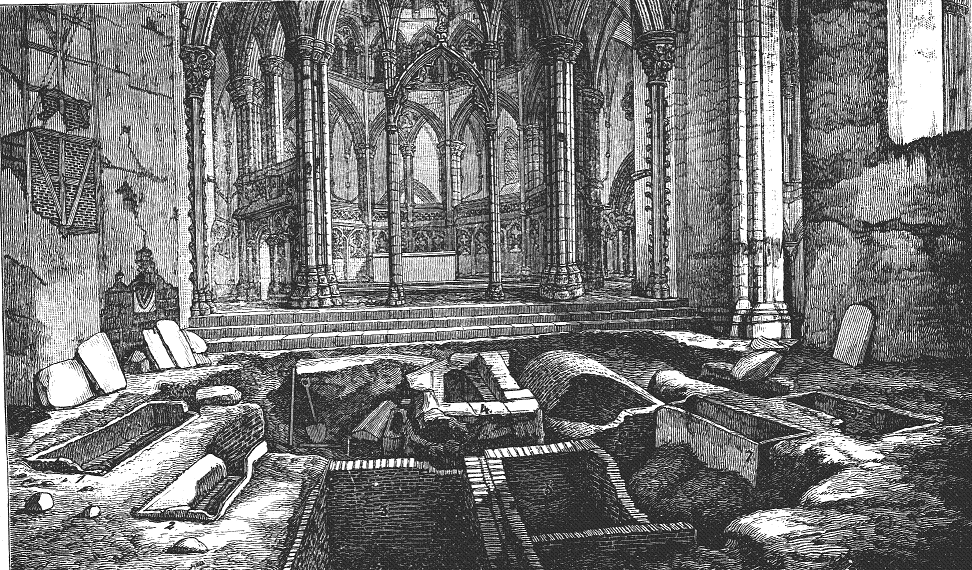 Burials discovered during 1865-66 excavations in Nidaros Cathedral, Trondheim, Norway.